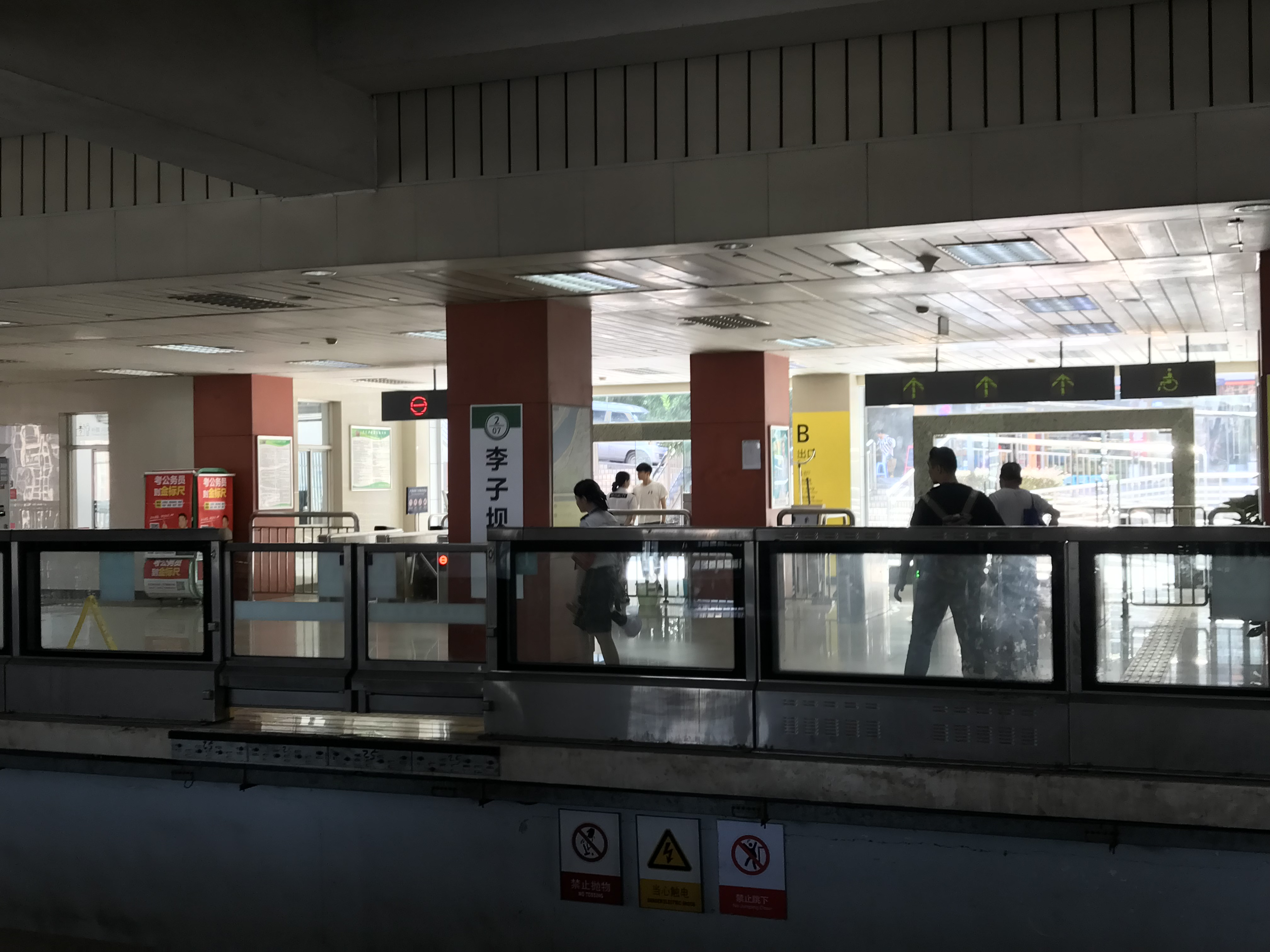 Located on Eastbound Platform